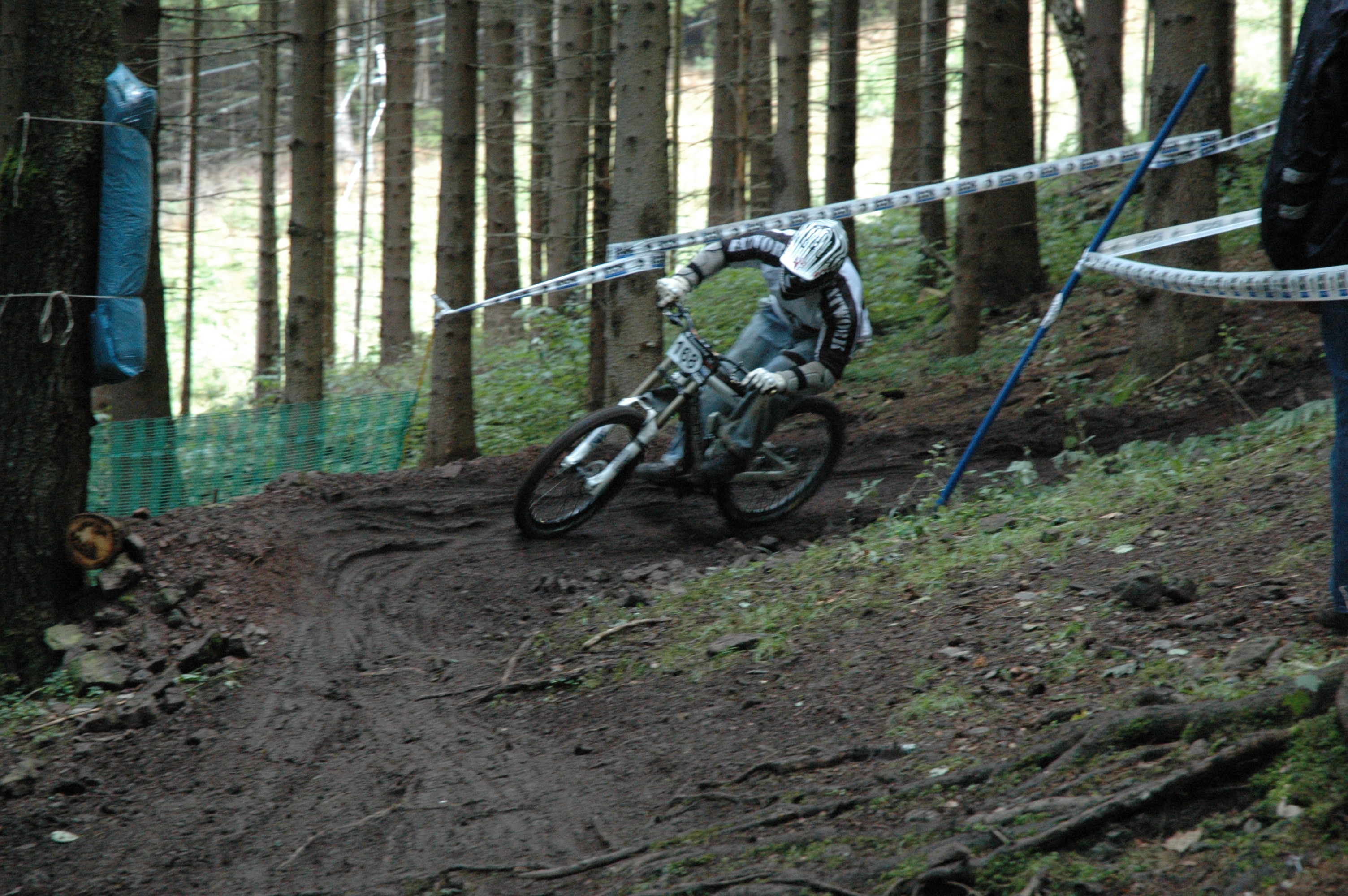 Olivier Lagger during training at the iXS European Downhill Cup race "Absolute Abfahrt" Ilmenau, Germany. August 23/24 2008